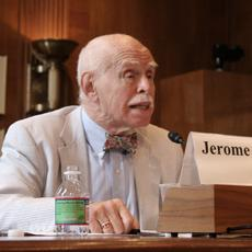 Jerome Cohen